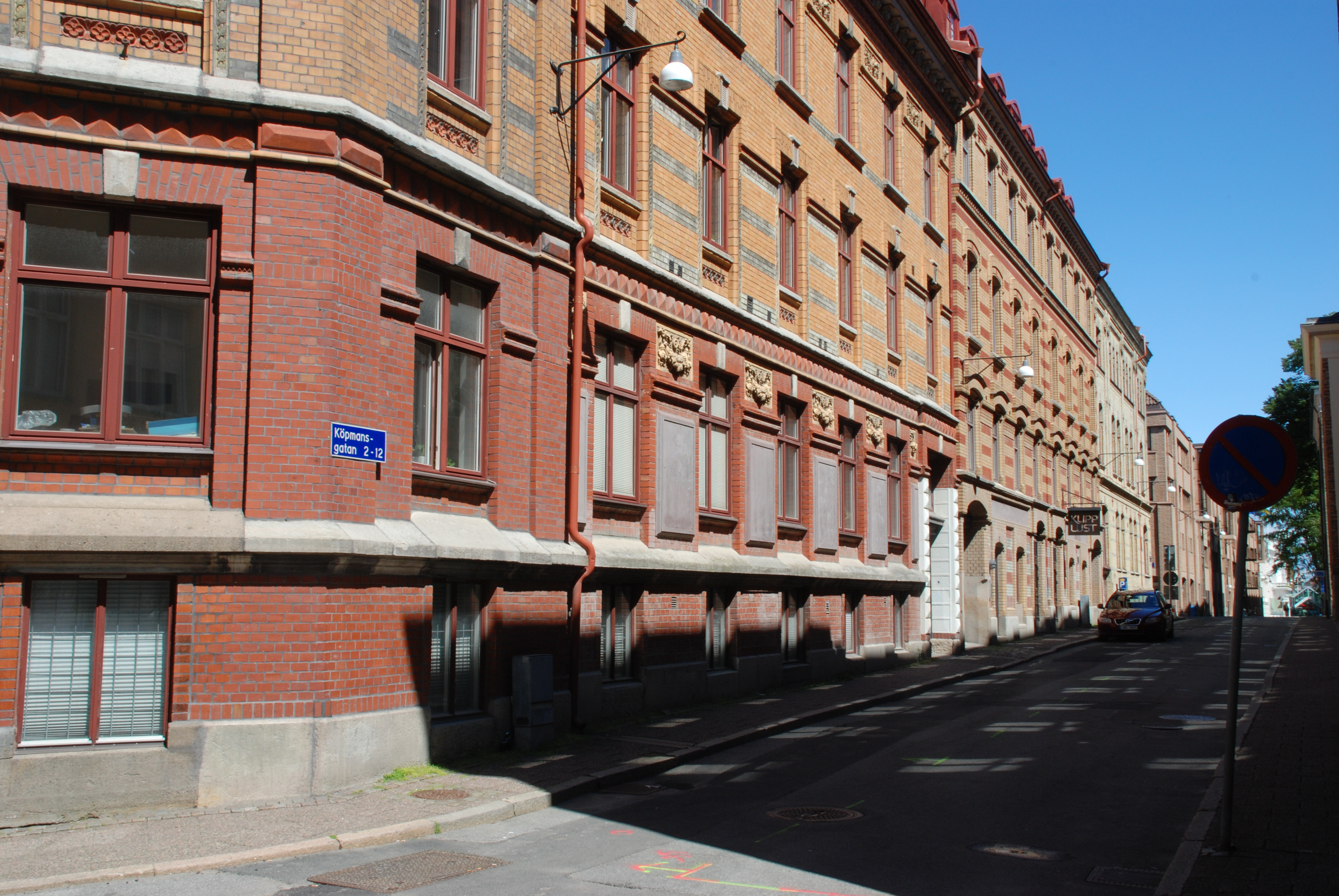 Köpmansgatan 2-12 in city part (Västra) Nordstaden in Göteborg.